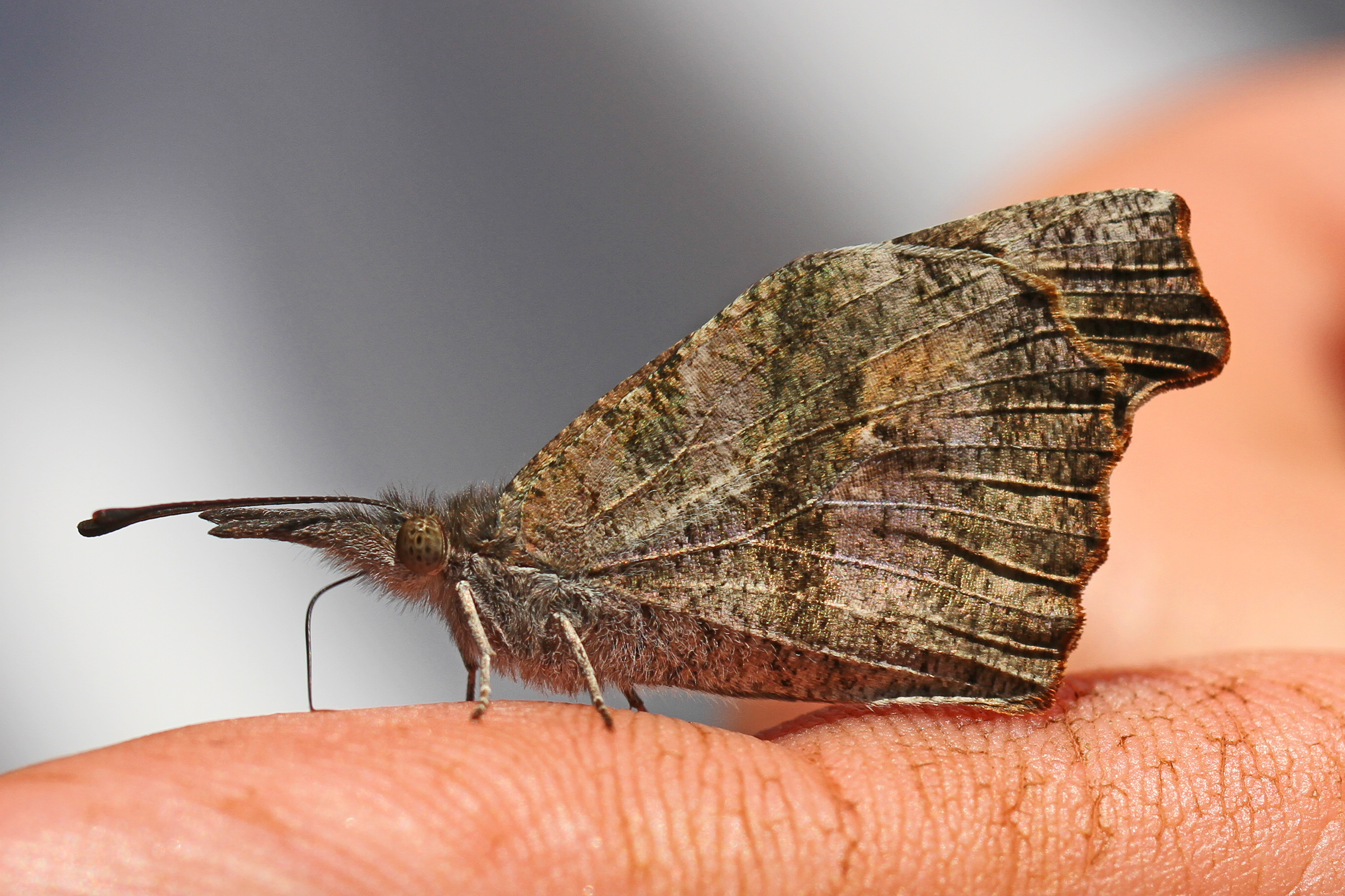 American Snout - Libytheana carinenta, Merrimac Farm Wildlife Management Area, Nokesville, Virginia